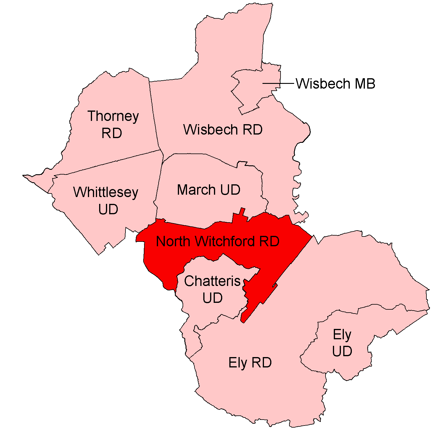 North Witchford Rural District, shown within the administrative county of the Isle of Ely. All boundaries shown are correct from 1935 to 1960. North Witchford RD itself was unchanged between 1894 and 1960.